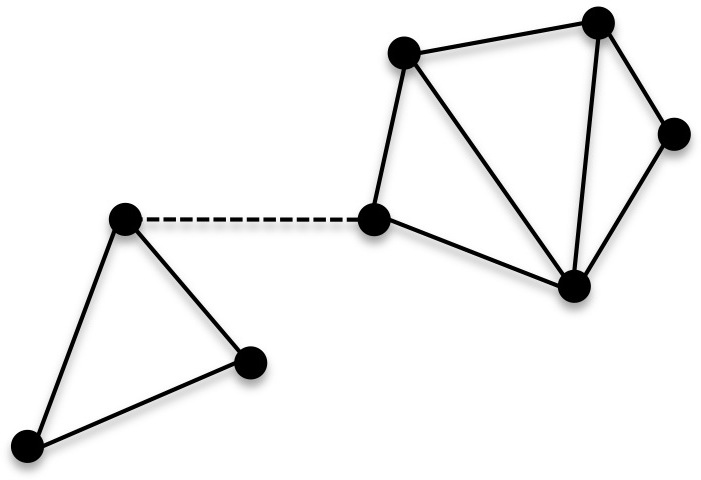 Illustration of a graph that becomes disconnected when the dashed edge is removed